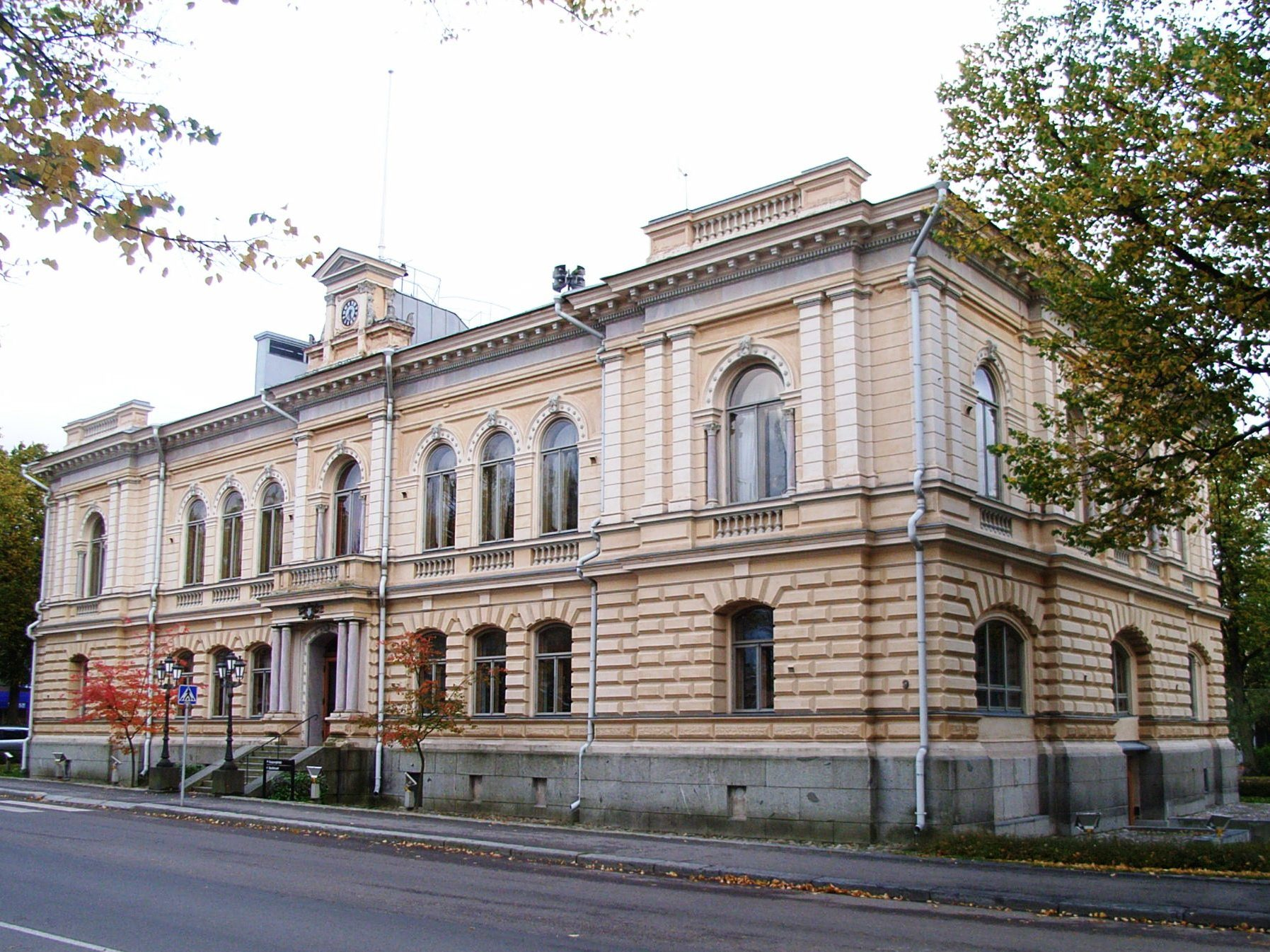 Porvoo, New town hall